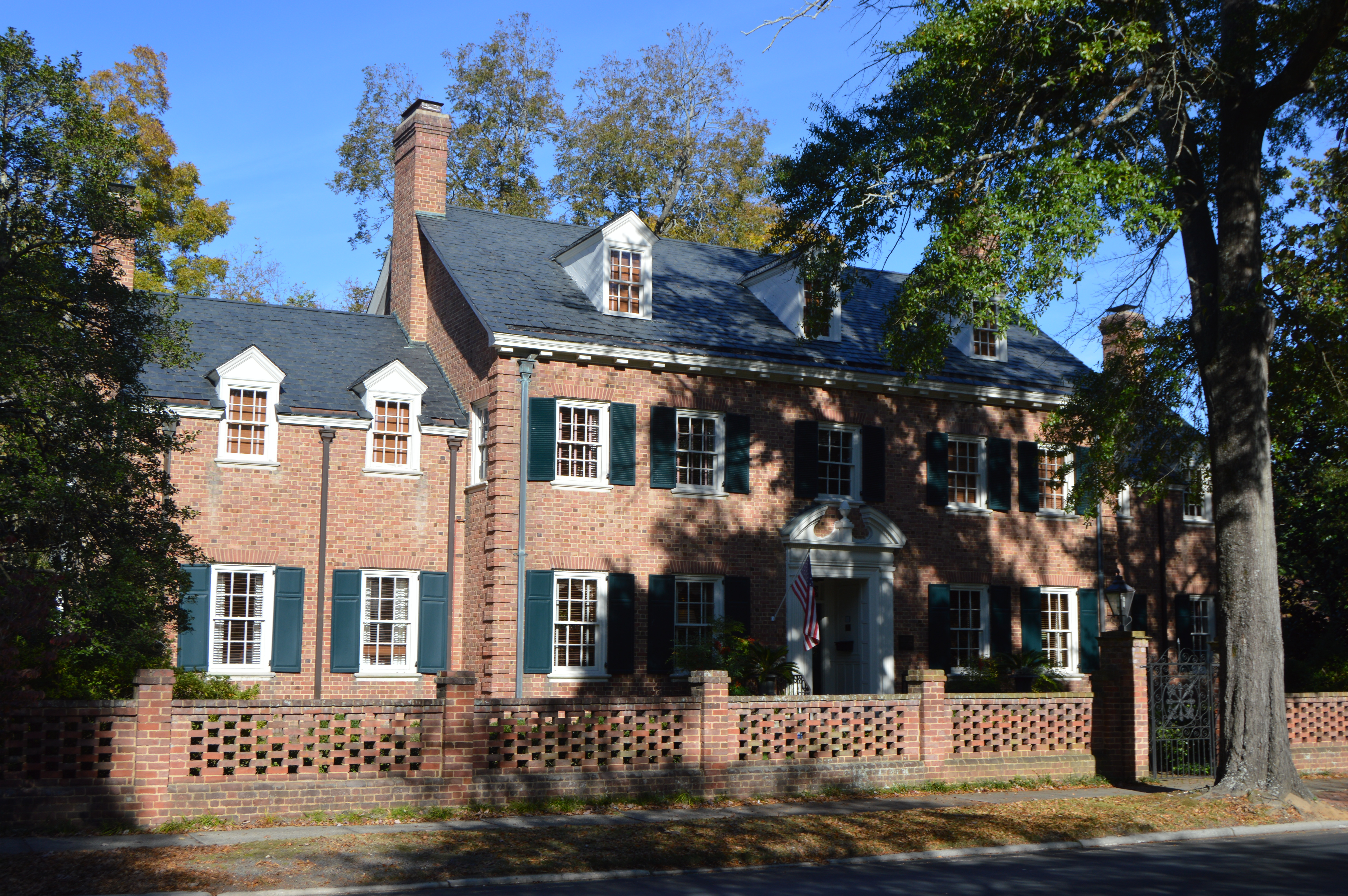 Front of the E. Hervey Evans House, located at 400 W. Church Street in Laurinburg, North Carolina, United States. Built in 1939, it is listed on the National Register of Historic Places.